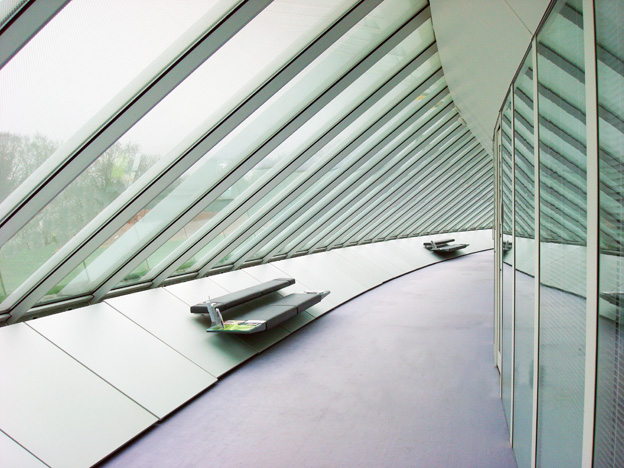 The Crescent Wing of the Sainsbury Centre UEA